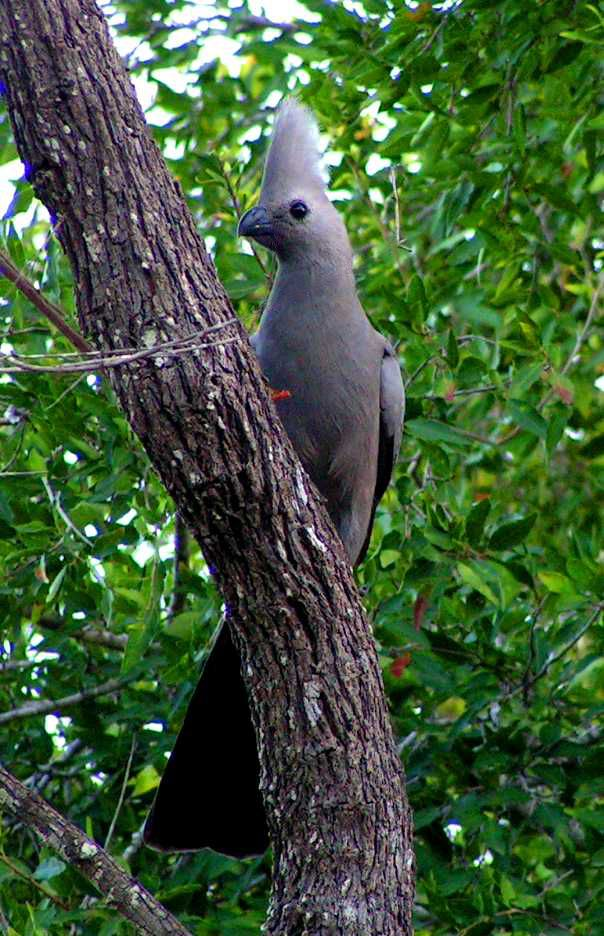 Grey Go-away-bird (Corythaixoides concolor) taken in Kruger Park, South Africa